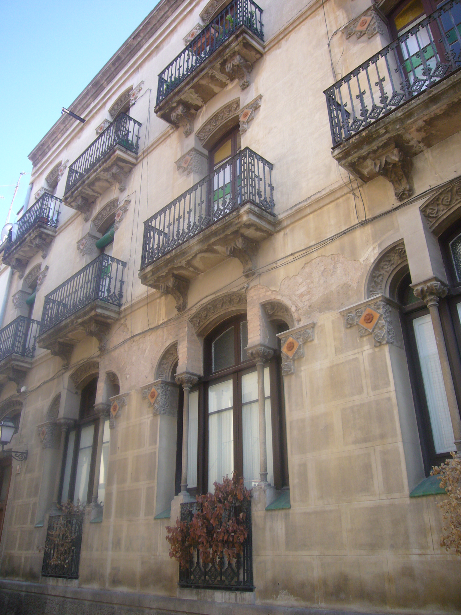 Casa Ramon Vives (Cal Monets)